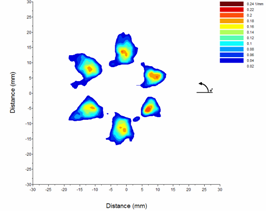 This image is a result obtained from testing a Gasoline Direct Injector using the SETScan Optical Patternator.